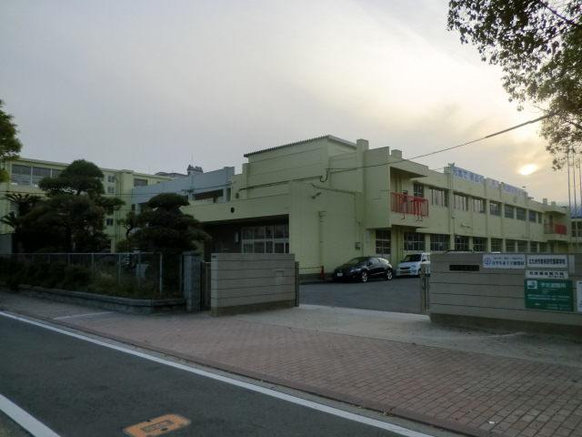 Nishi Kokura Elementary School in Kitakyushu city,Japan.